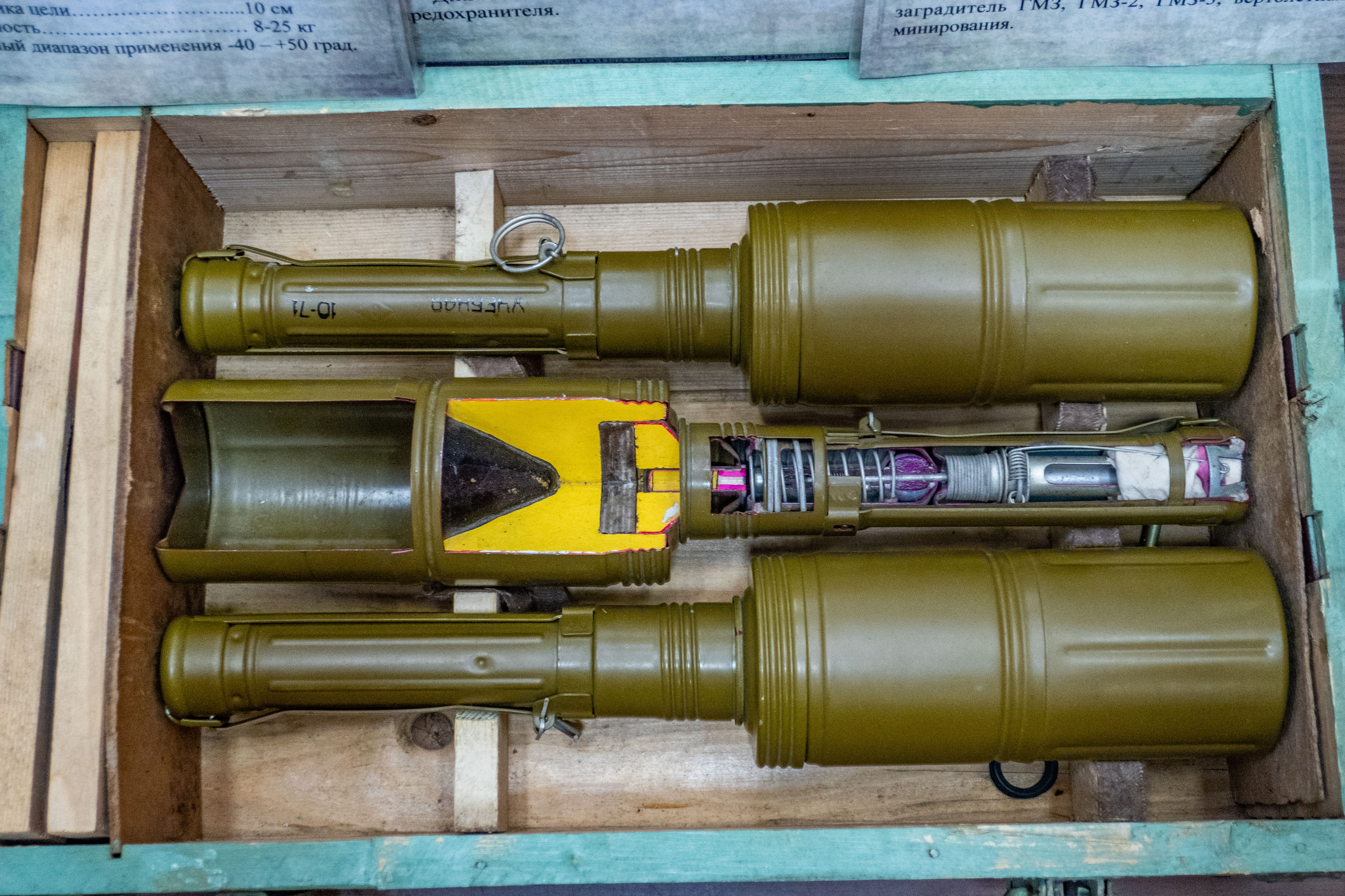 RKG-3 hand grenade. DOSAAF Museum, Minsk, Belarus